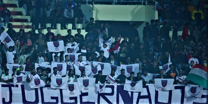 The 'Juggernauts', the fan group of Odisha FC, at the Kalinga Stadium in Bhubaneswar.